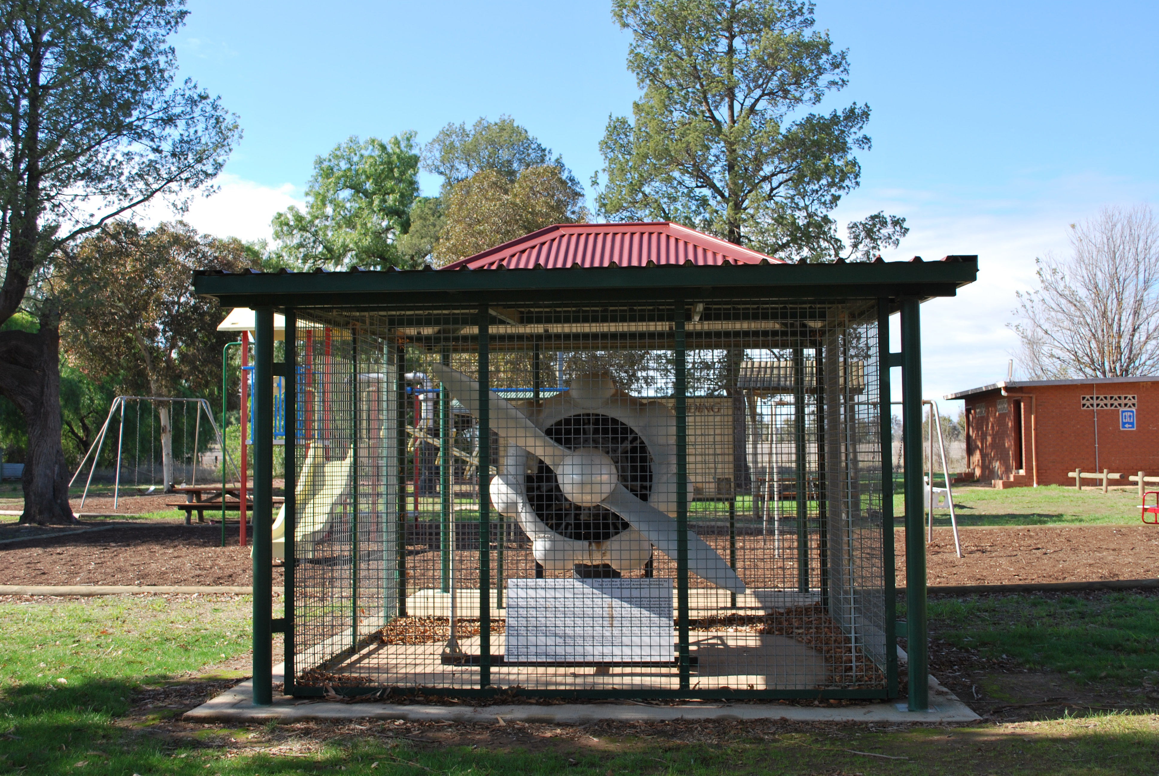 Avro Anson propeller at Brocklesby, New South Wales